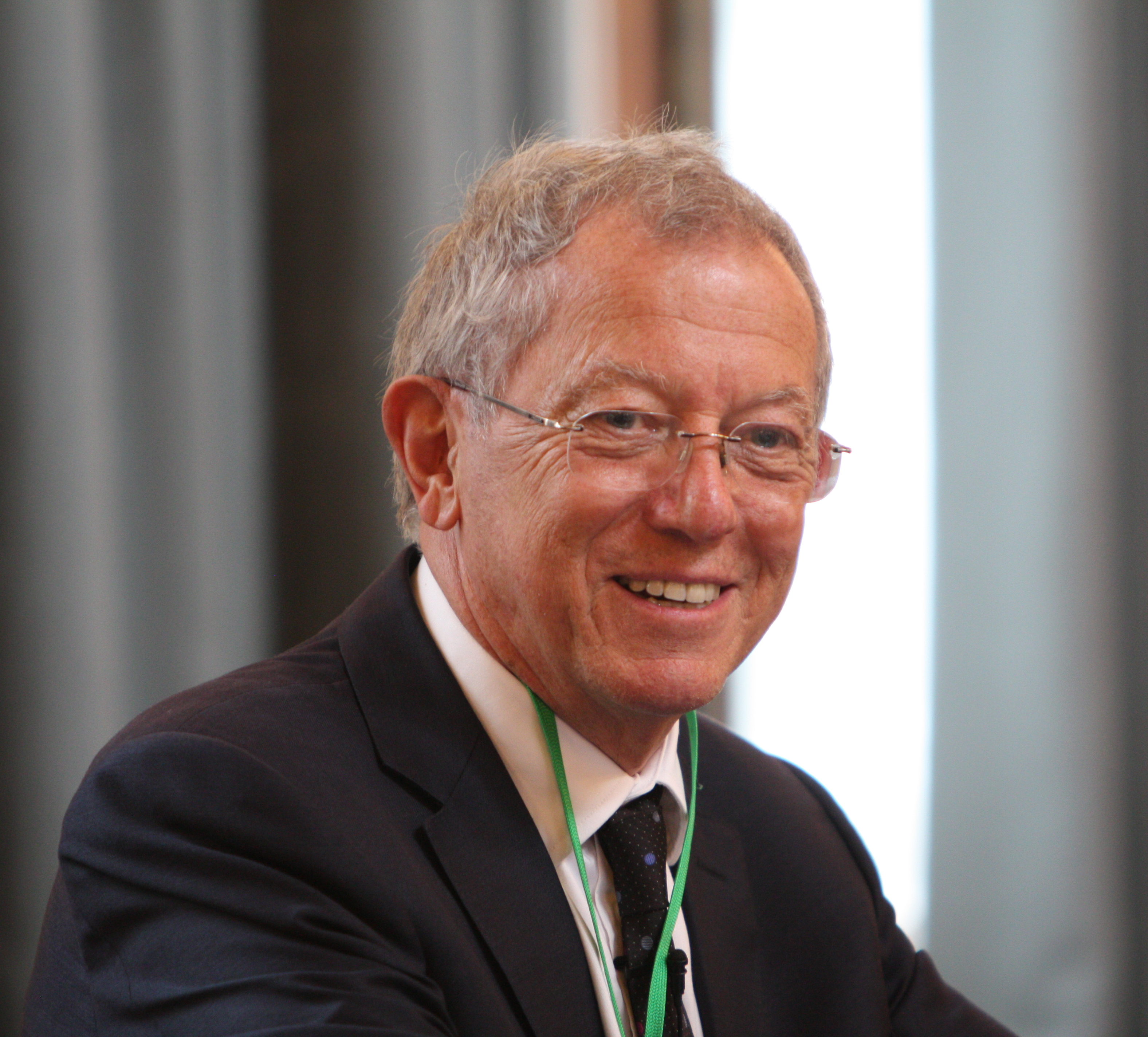 Sir David King, Foreign Secretary's Special Representative for Climate Change at the launch of Human Dynamics of Climate Change map in London, 16 July 2014.